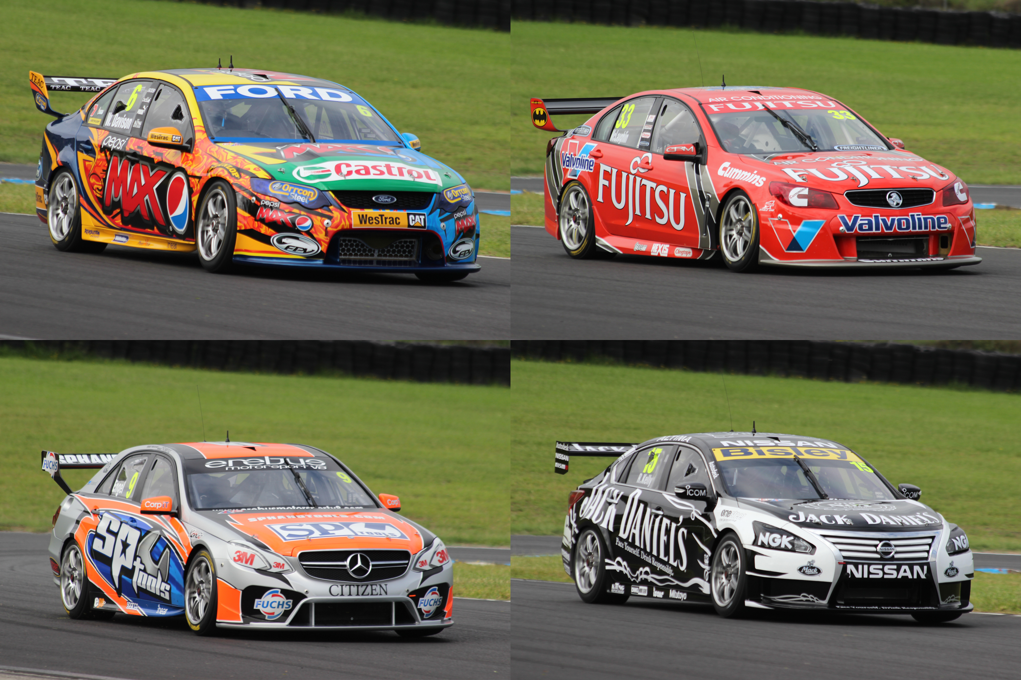 Ford FG Falcon, Holden VF Commodore, Mercedes-Benz E63 AMG and Nissan Altima V8 Supercars; the four manufacturers competing in 2013.